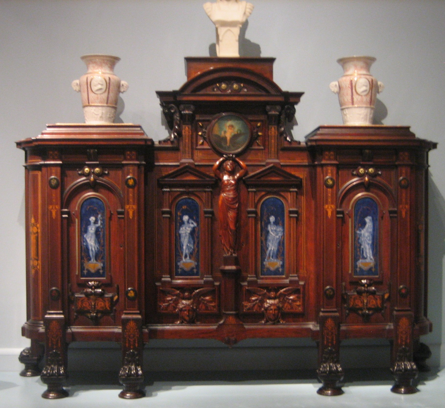 Herter Brothers cabinet, c. 1869, National Trust for Historic Preservation